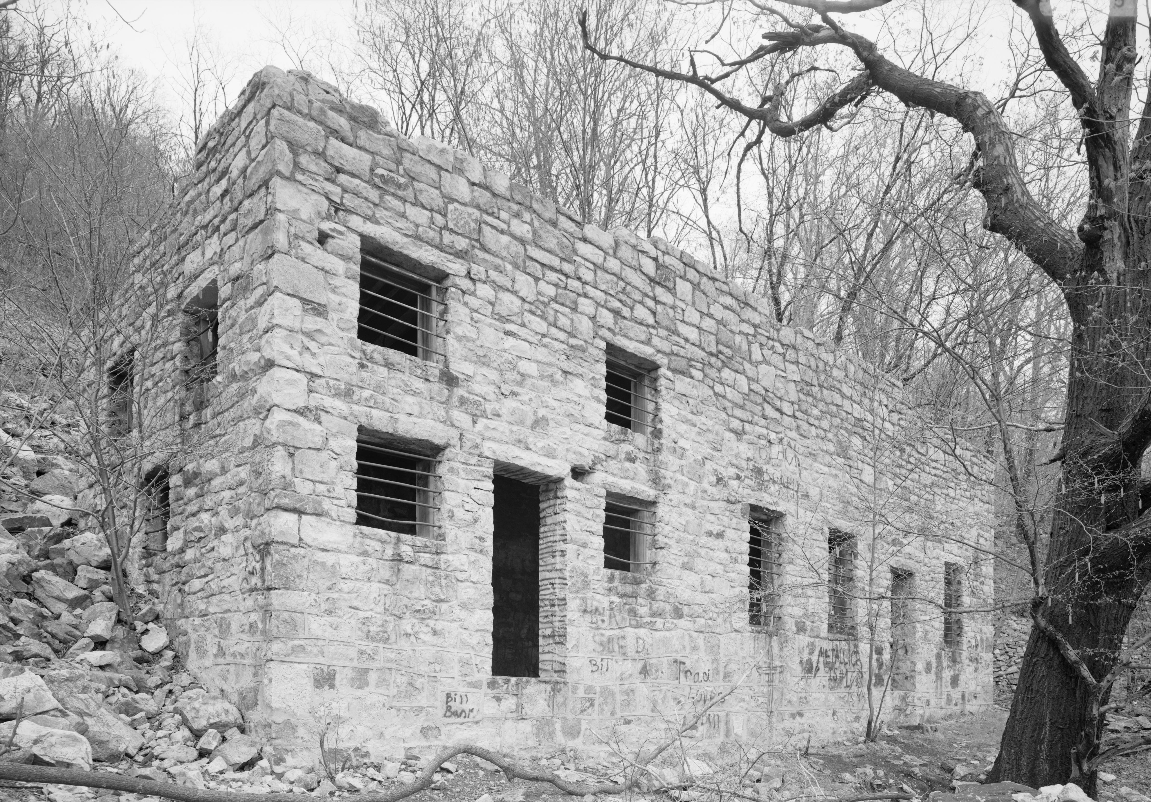 Front and side of the engine repair house at the Harbison-Walker Refractories Company Complex, located at the western end of Shirley Street in West Union, Pennsylvania, United States. The complex is a historic district that is listed on the National Register of Historic Places.